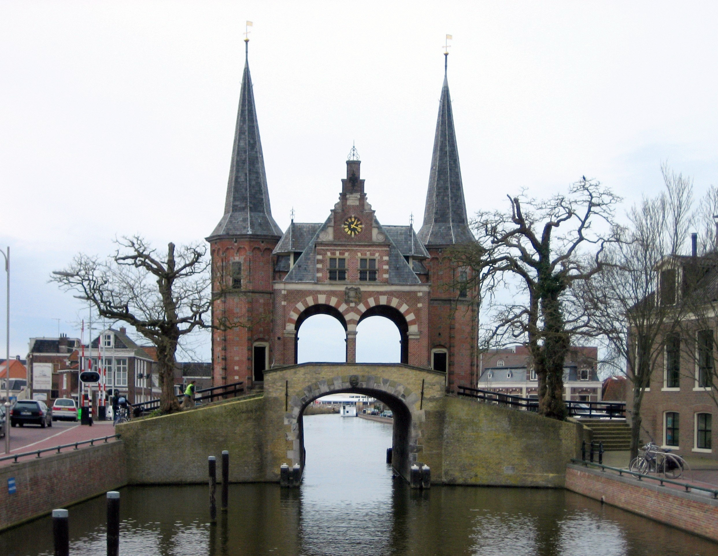 Sneek, watergate